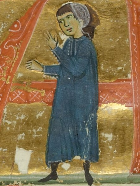 The troubadour Peire Rogier